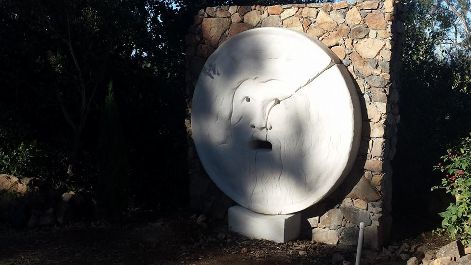 This is a replica of the 'Mouth of Truth' created by Bryan Morse and installed in Alta Vista Gardens in Vista, CA